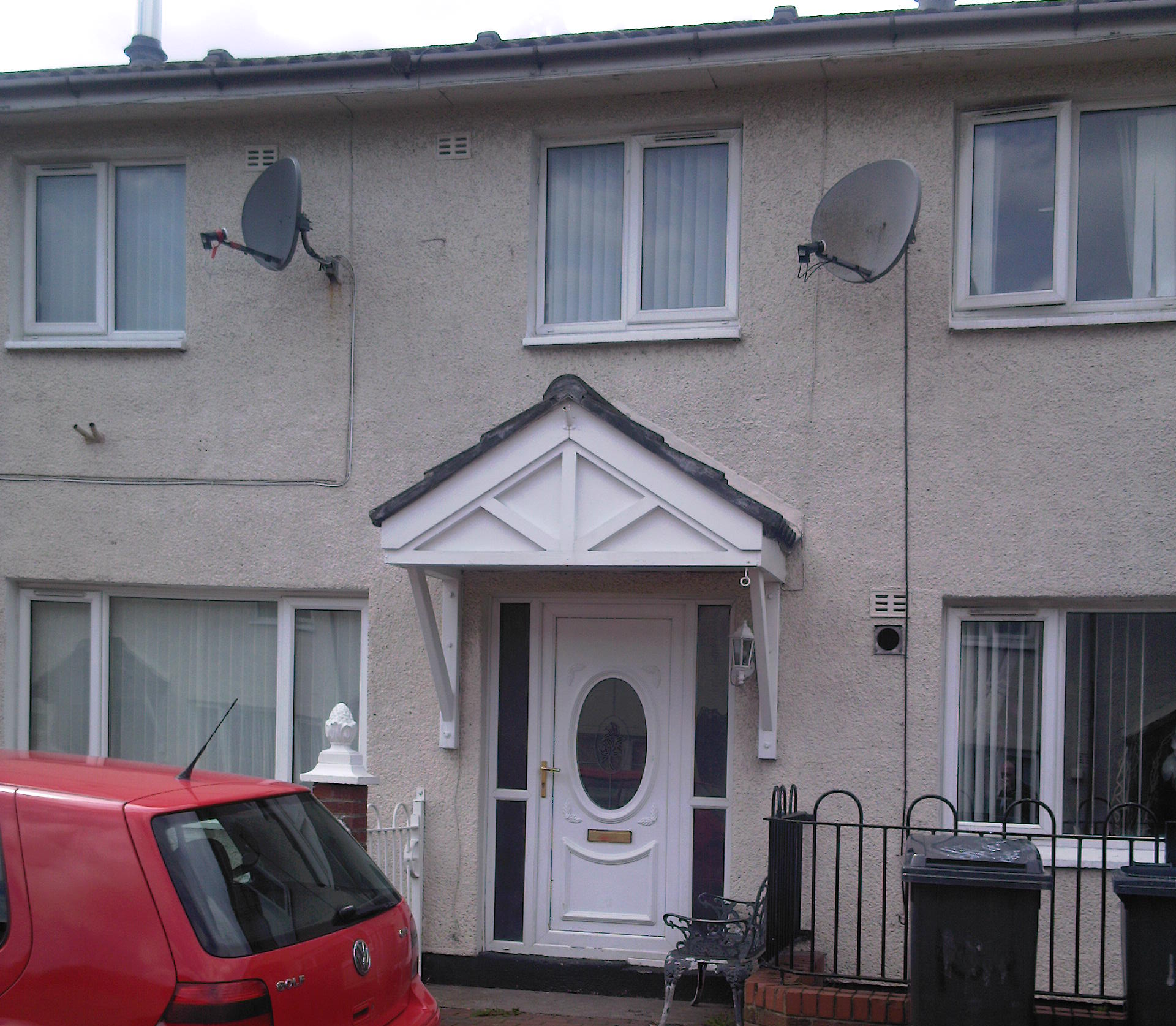 Johnny Adair's former home, 100 Boundary Way, Shankill Road, Belfast